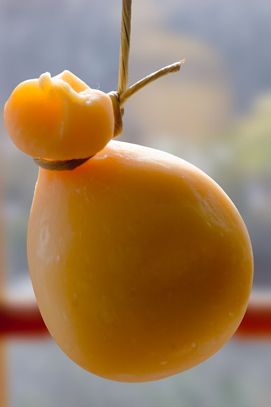 The cheese we brought back from Palermo. Sealed in wax, we were very curious.